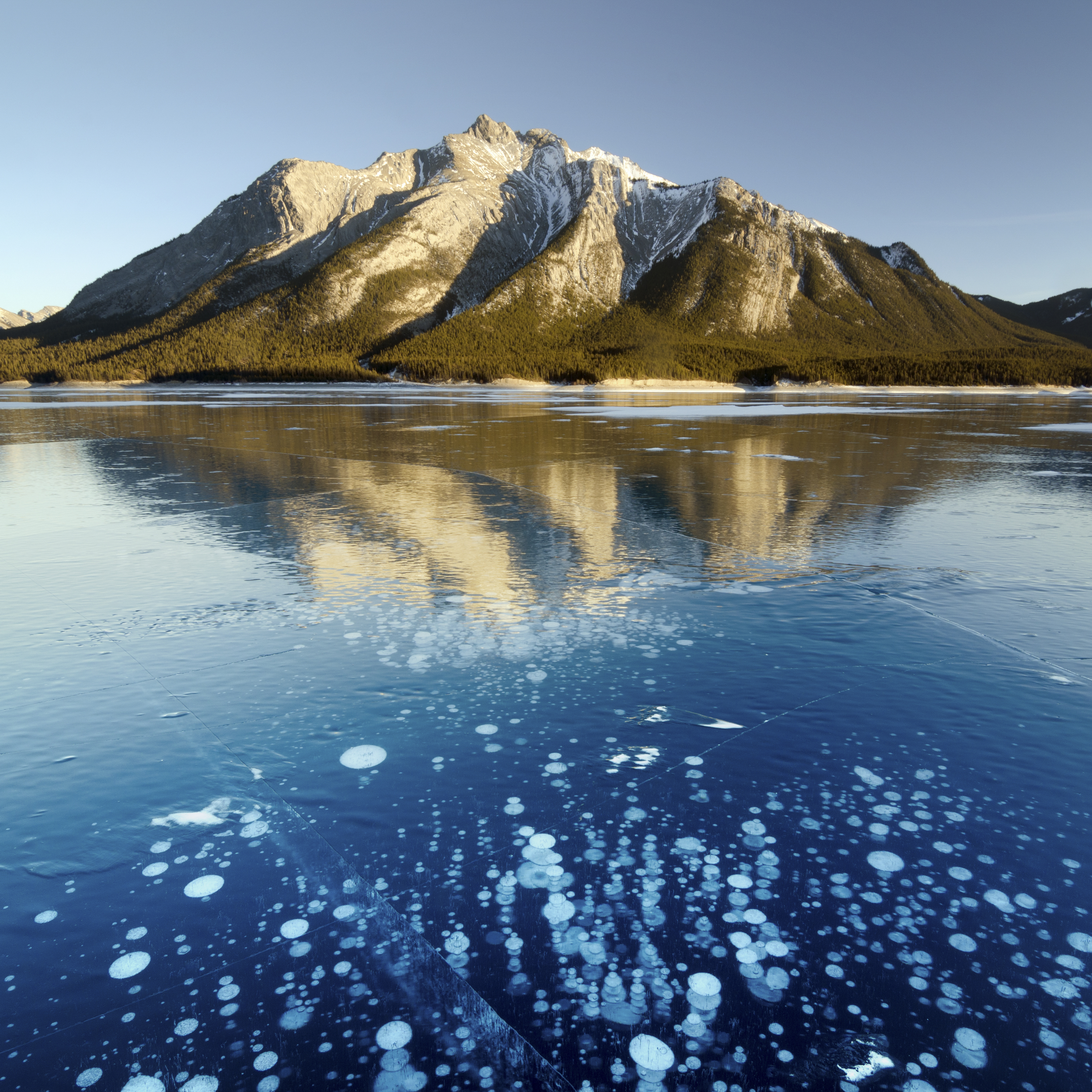 Bubbles on frozen Abraham Lake